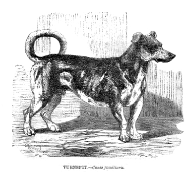 Turnspit Dog